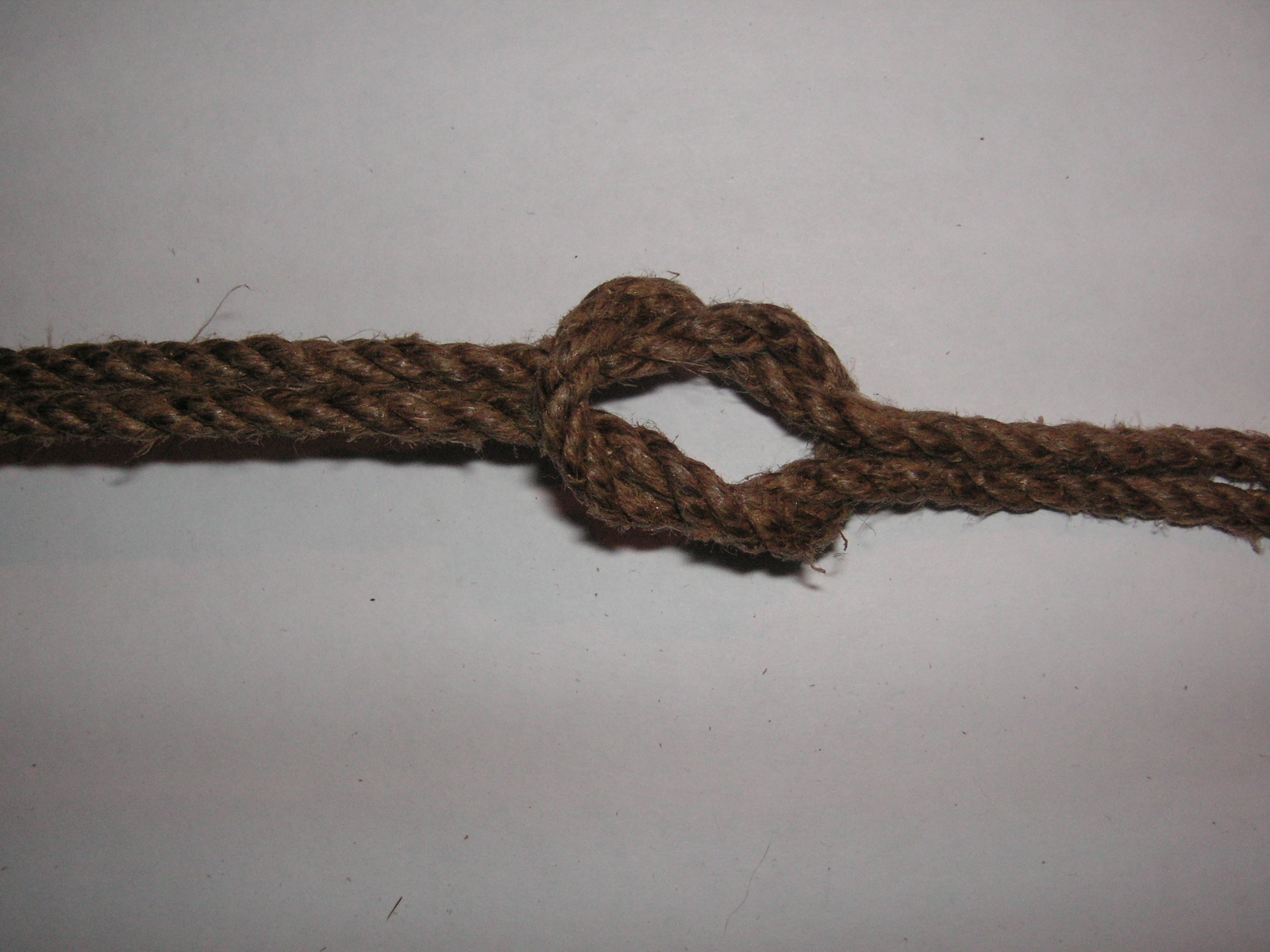 This work has been released into the public domain by its author, at the |Swedish Wikipedia project. This applies worldwide. In case this is not legally possible: grants anyone the right to use this work for any purpose, without any conditions, unless such conditions are required by law.